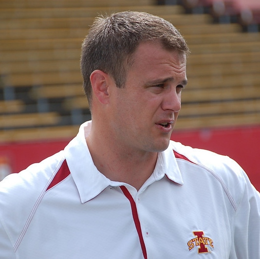 Iowa State University football offensive coordinator Tom Herman at Iowa State media day in 2010.